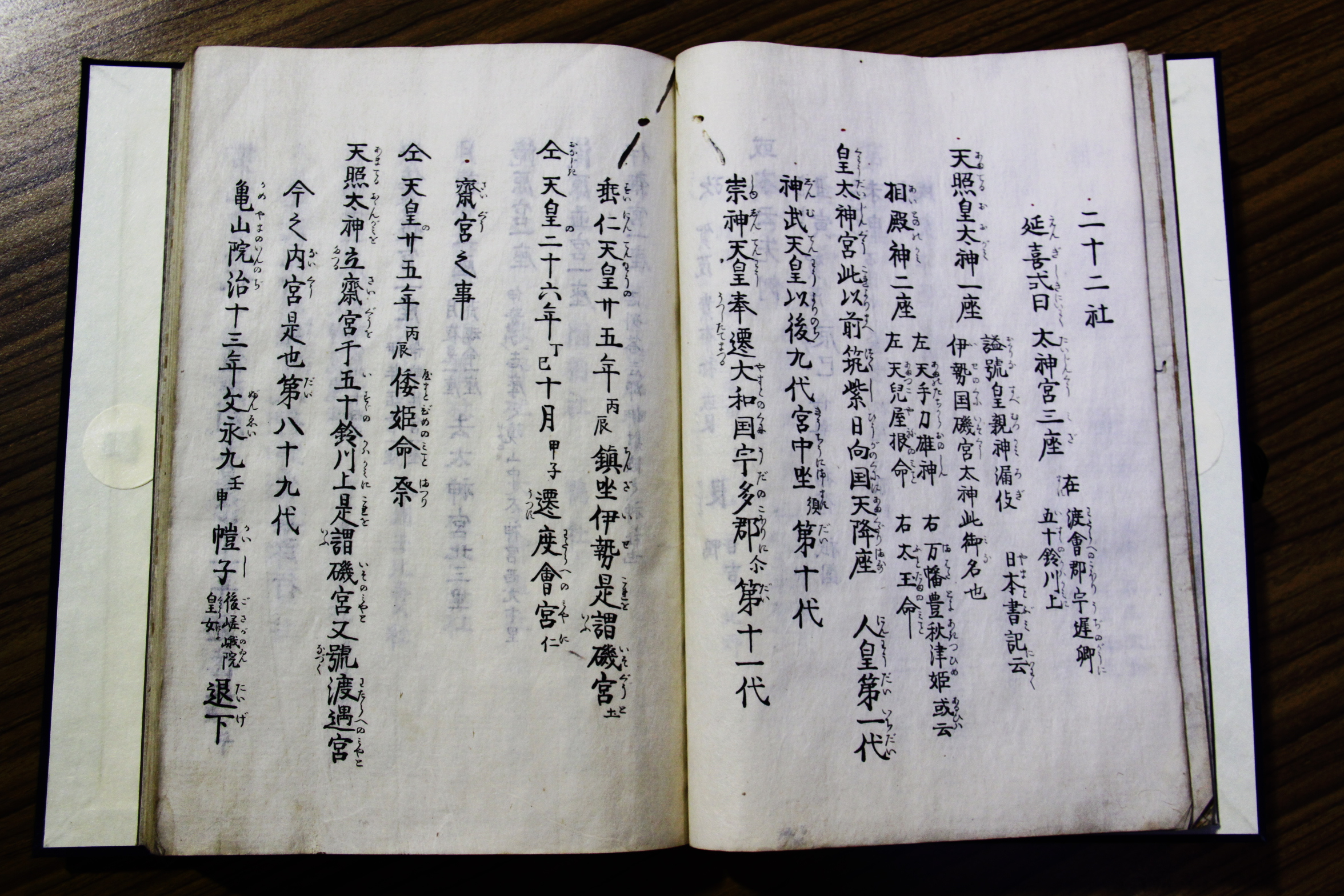 Manuscript of "Nijuunisha-chuushiki"